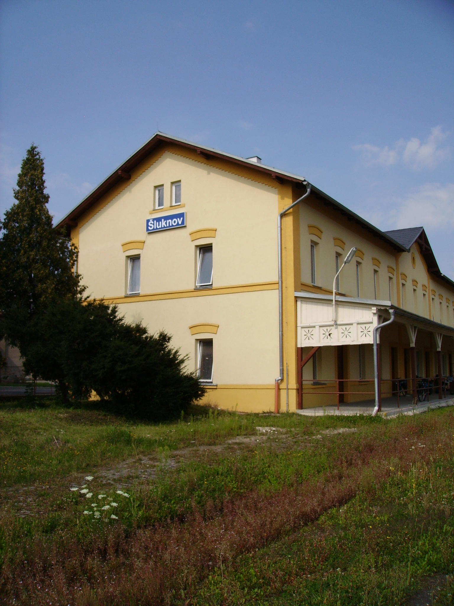 Railway station in Šluknov, Czech Republic.